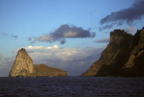 Ua Pou's steep southern shore and Motu Takahe, Marquesas.